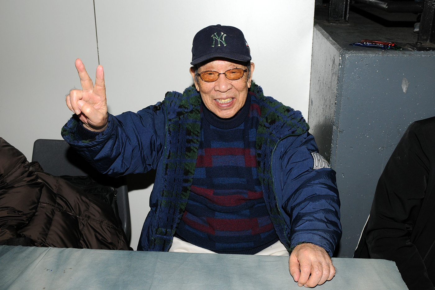 Haruo Nakajima @ Weekend Of Horrors 11 - Turbinenhalle Oberhausen, Germany 2013